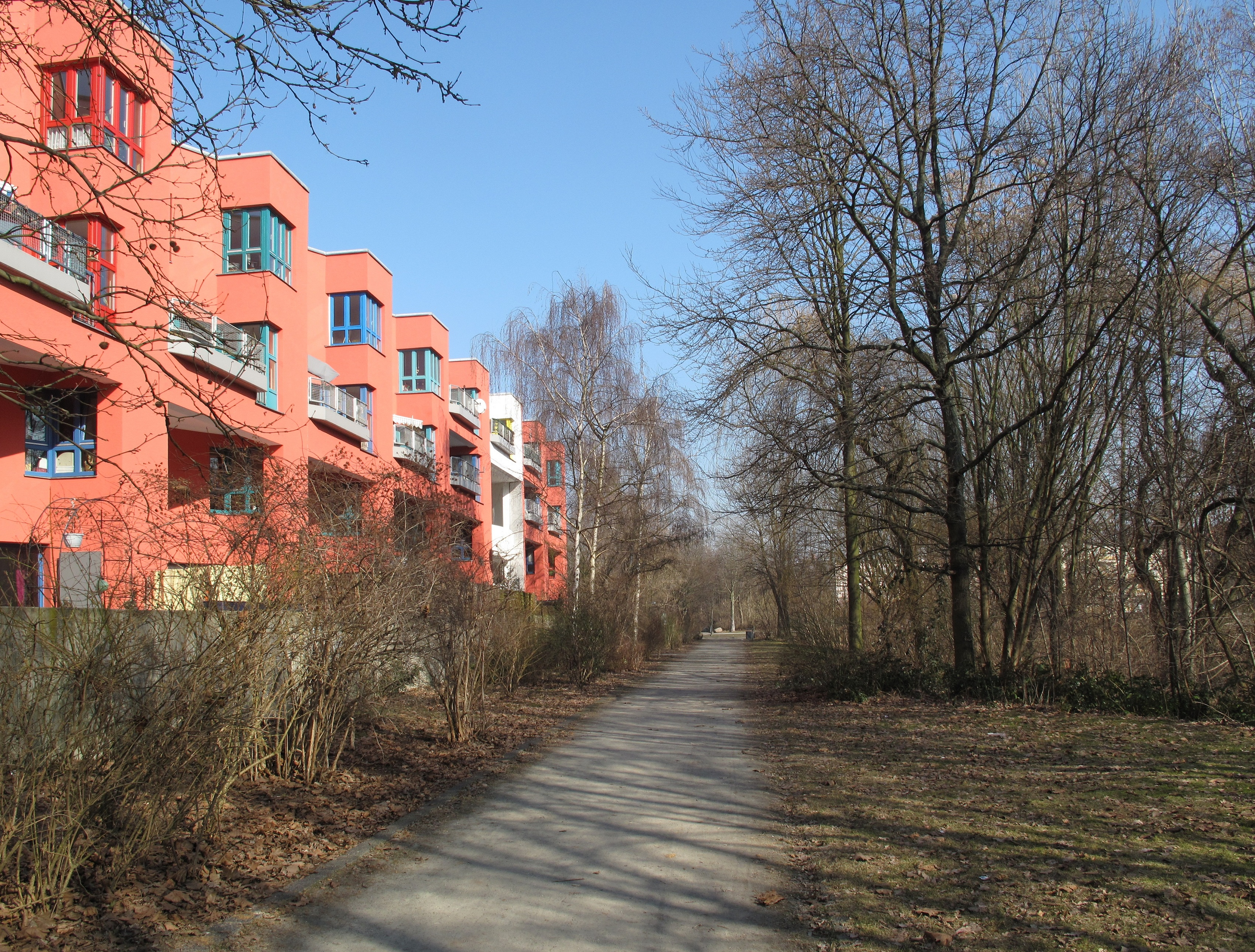 Apartment building of the High-Deck-Siedlung at the green space Heidekampgraben. The High-Deck-Siedlung is a housing estate in Berlin-Neukölln with ca. 6.000 inhabitants. The estate was built in the 1970s/1980s within the subsidized housing by the architects Rainer Oefelein and Bernhard Freund. Their innovative urban development concept counted on a structurally separation of pedestrians and traffic in opposition to Berlin's „urbanity through density“ conception (high-rise-estates) at that time. Above the streets spandrel-braced, green foot pathes (the High-Decks) connect the mainly five to six storied houses. Was the estate after it's construction regarded as the epitome of a tranquil and modern urban living at the green edge of West Berlin, it has evolved after the fall of Berlins Wall into a social hotspot. There was set up a neighbourhood management in 1999.